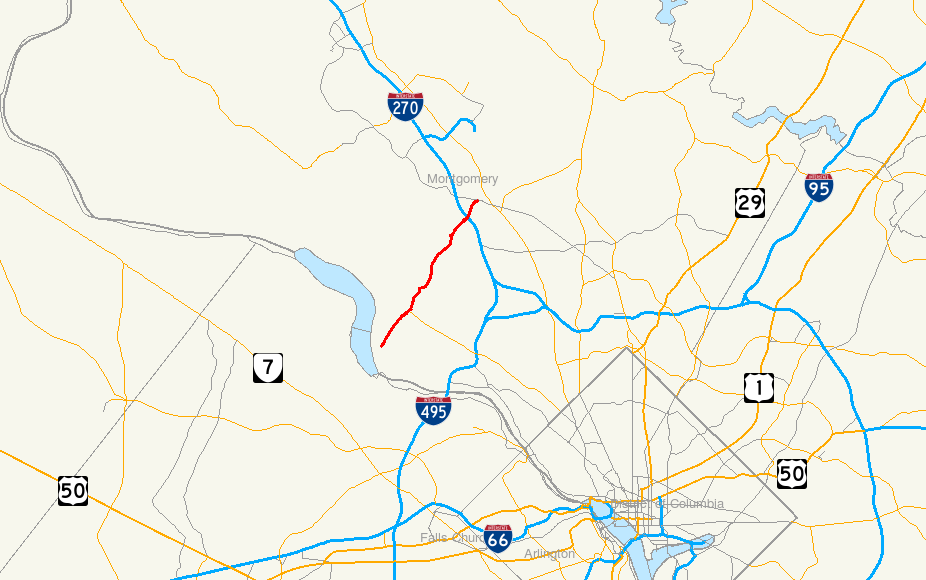 Map of Maryland Route 189